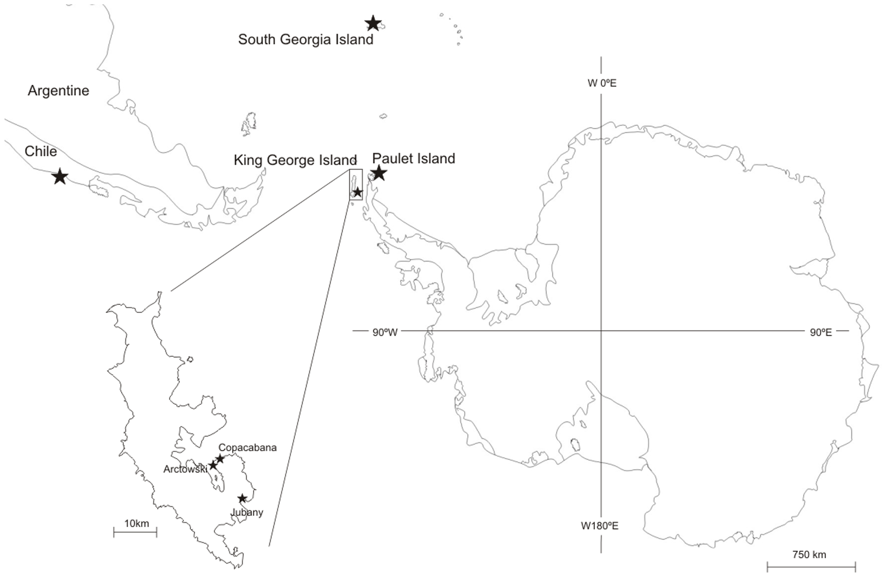 Map of Antarctica and southernmost part of Chile. Stars are records of Haliclystus antarcticus: South Georgia Island, Paulet Island, King George Island (Polish “Arctowski” Station, US “Copacabana” Refuge and Argentinean Antarctic Station “Jubany”) and Chile (Valdivia).